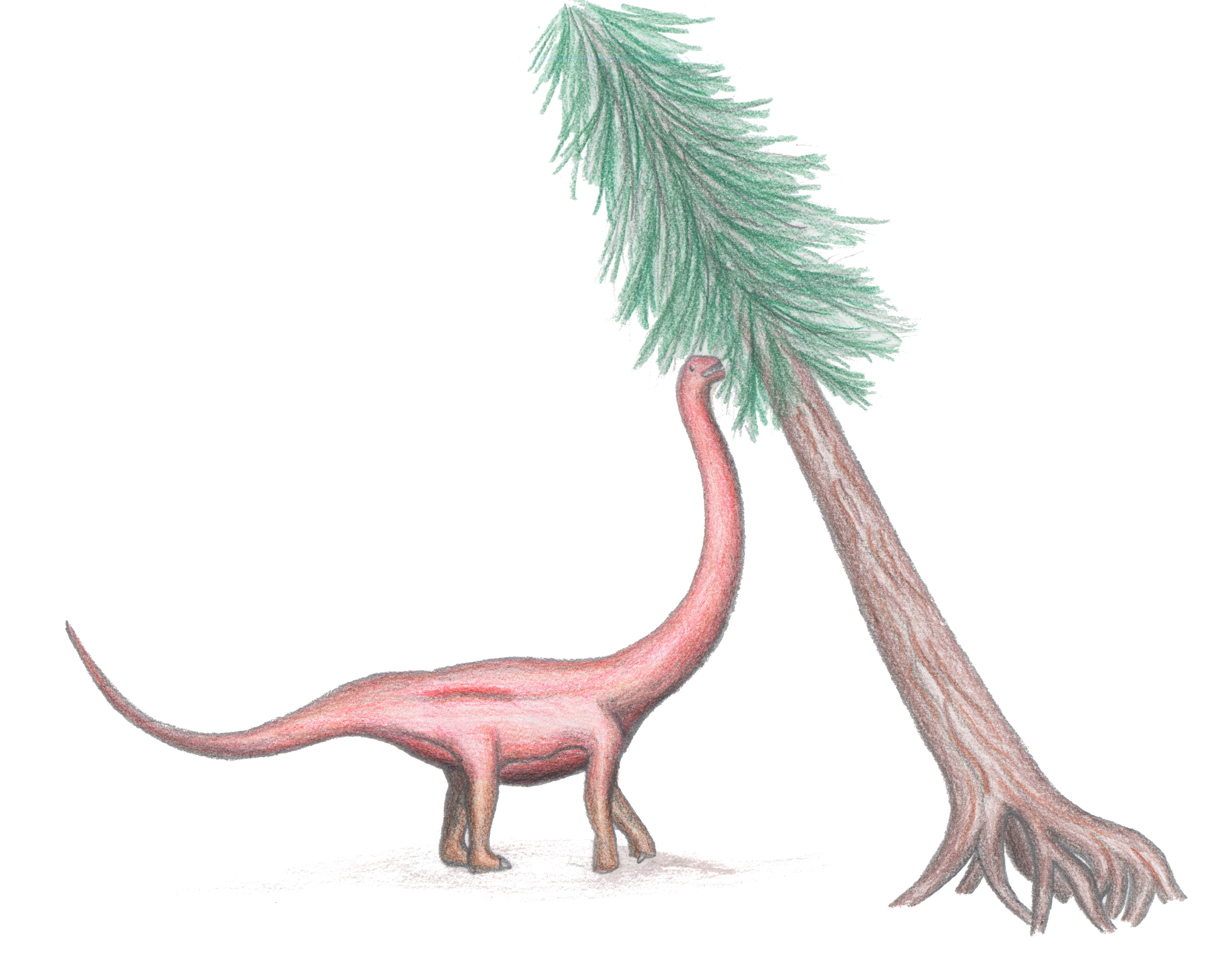 Life restoration of Cetiosauriscus stewarti, based on historic photographs and drawings of the mounted skeleton.